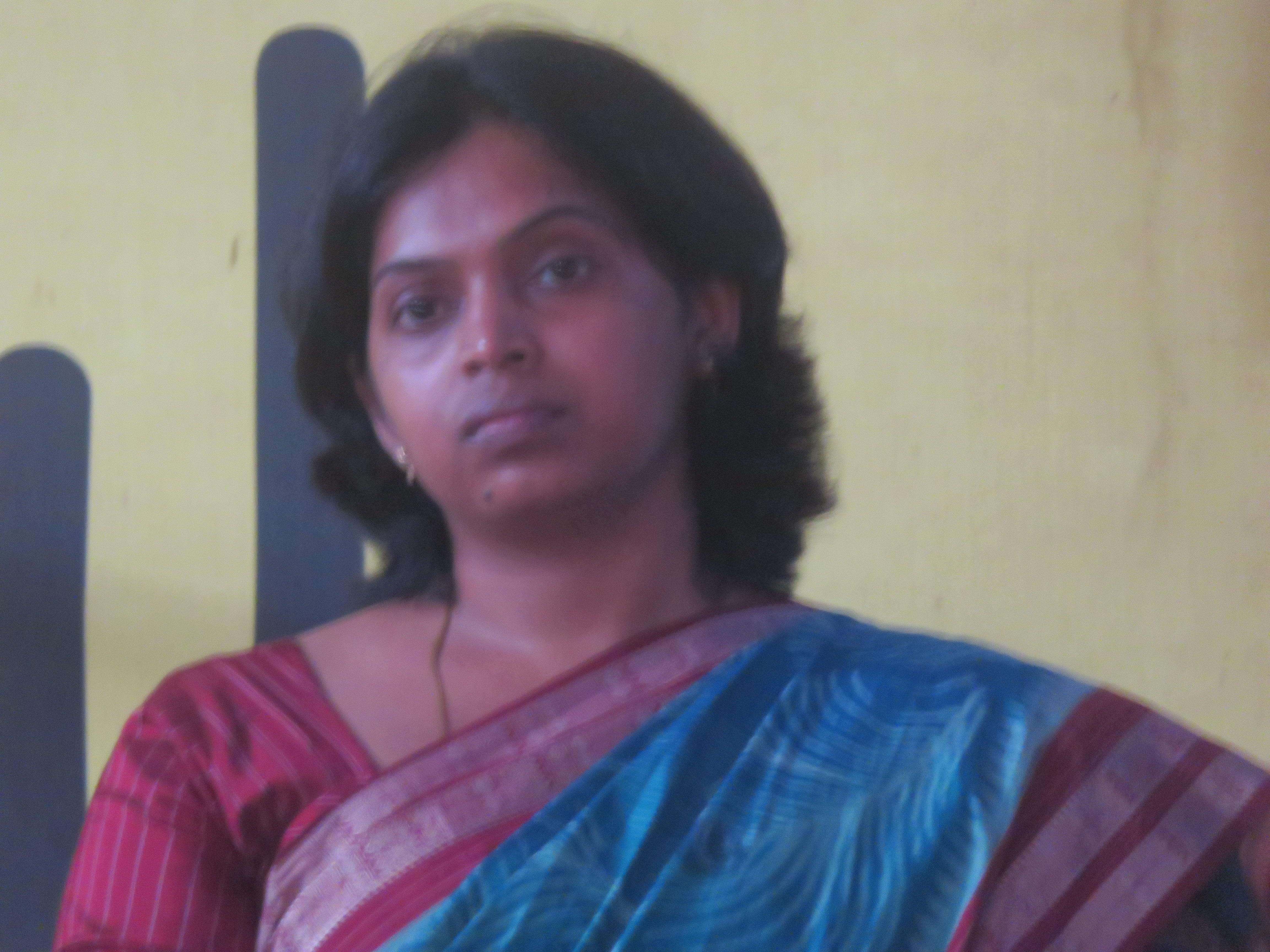 Arati Devi is a leading social activist of Odisha and the youngest lady Sarapanch if India till today.